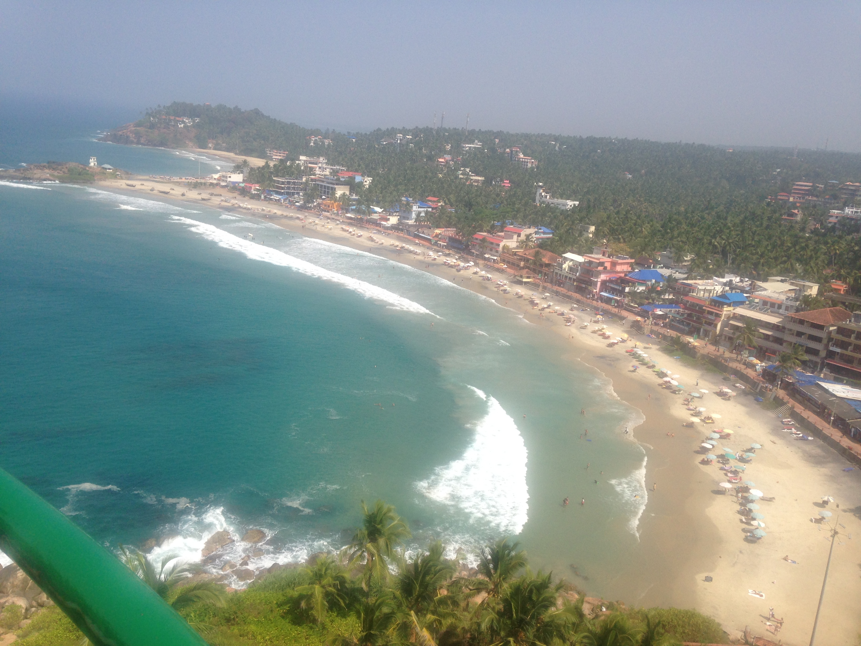 View of Kovalum City from Light House